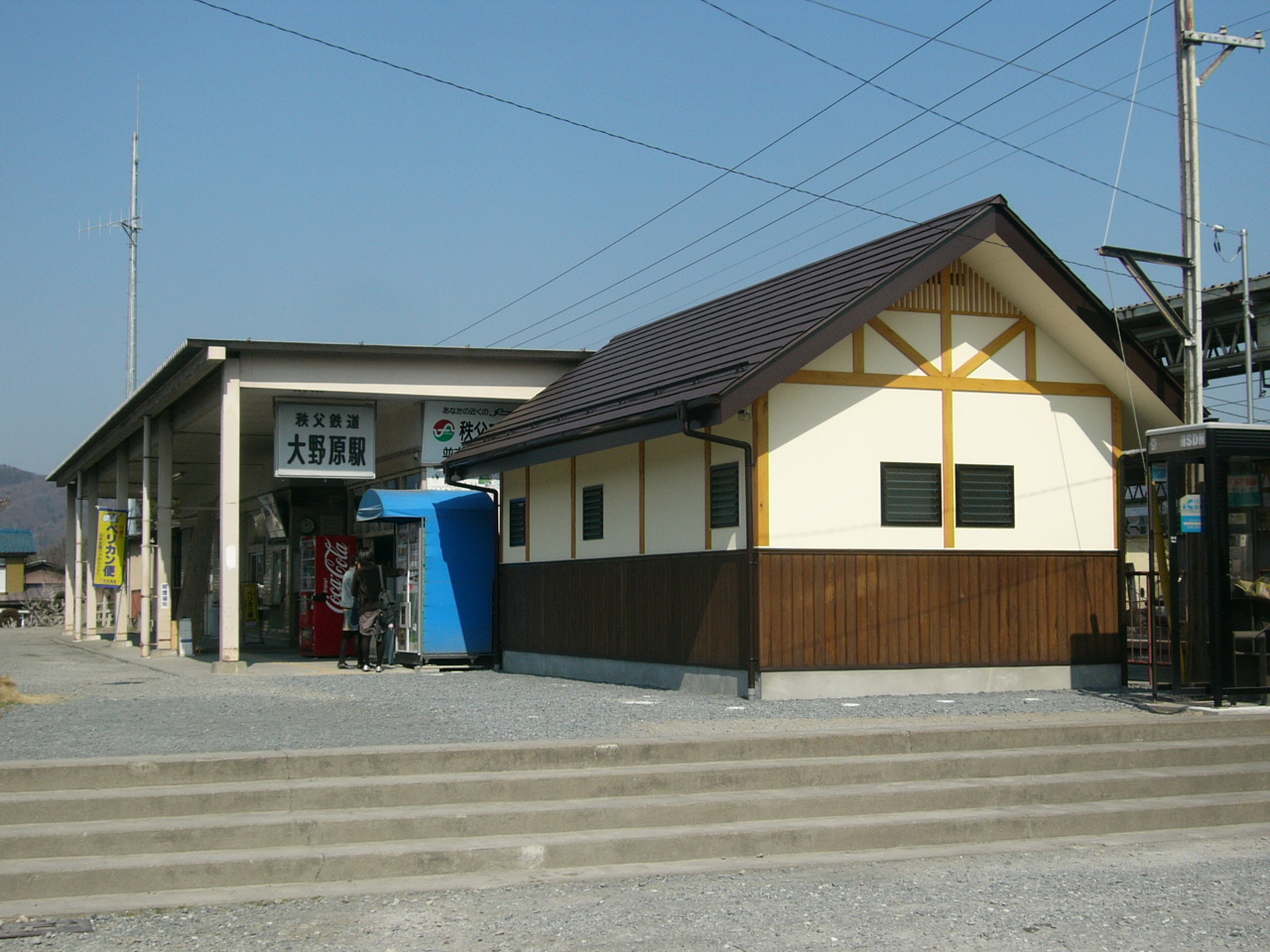 Onohara Station on the Chichibu Main Line in Saitama Prefecture, Japan